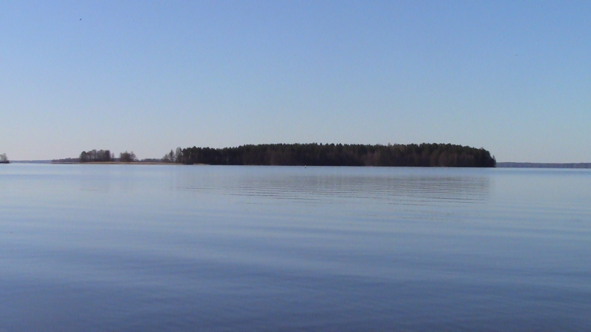 Iissalo island seen from Katismaa island in Säkylä, Finland.